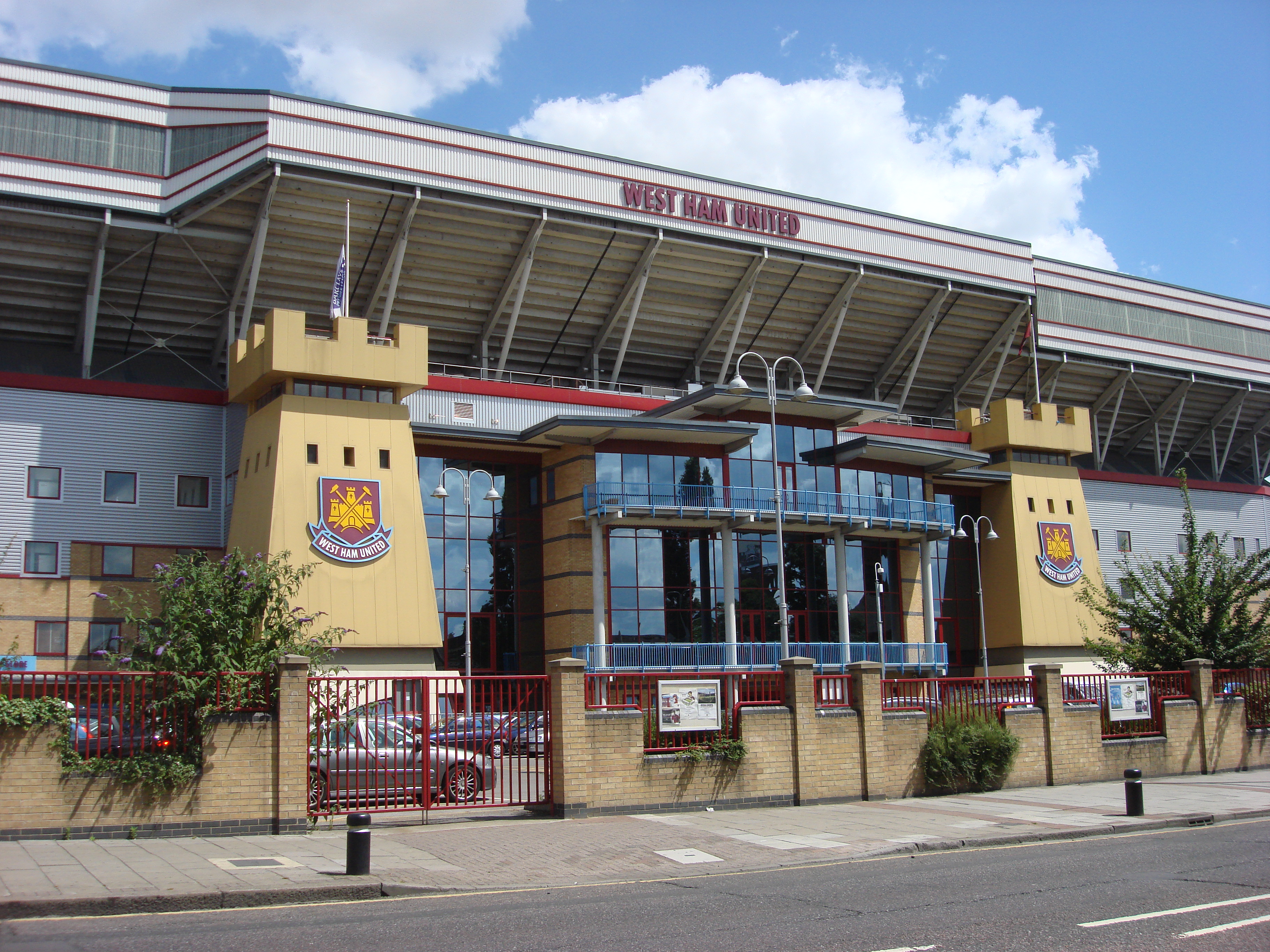 Main entrance and 'twin towers' of West Ham United's Dr Marten's stand, Boleyn Ground, Upton Park, London, taken from Green Street.